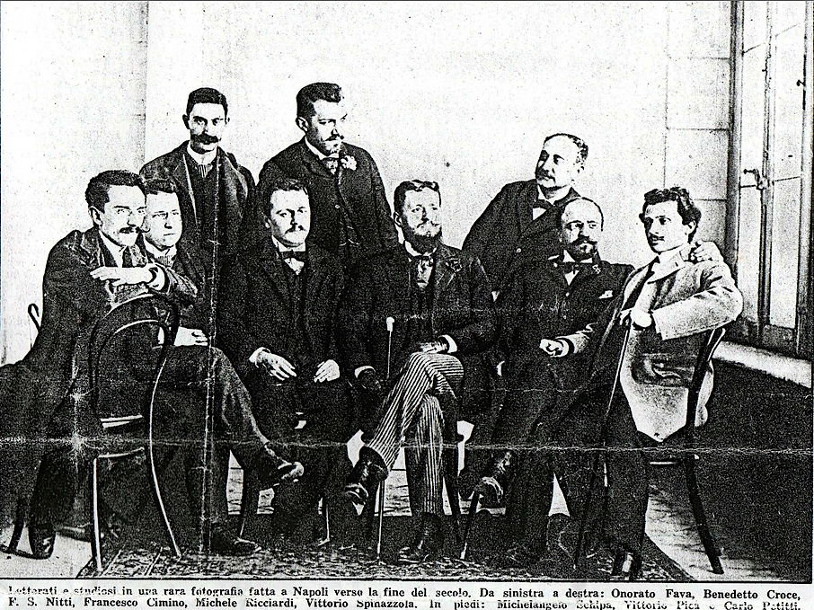 Founding members of the Società dei Nove Musi (Club of the Nine Muses), Naples, 1890s. From left to right, seated : Onorato Fava, Benedetto Croce, Francesco Saverio Nitti, Francesco Cimino, Michele Ricciardi, Vittorio Spinazzola ; behind : Michelangelo Schipa, Vittorio Pica and Carlo Petitti.